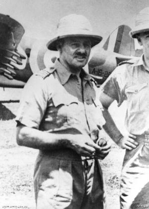 Group Captain (later Air Commodore) Raymond Brownell, Commander of Royal Australian Air Force units in Singapore and Malaya, with his staff in Malaya.